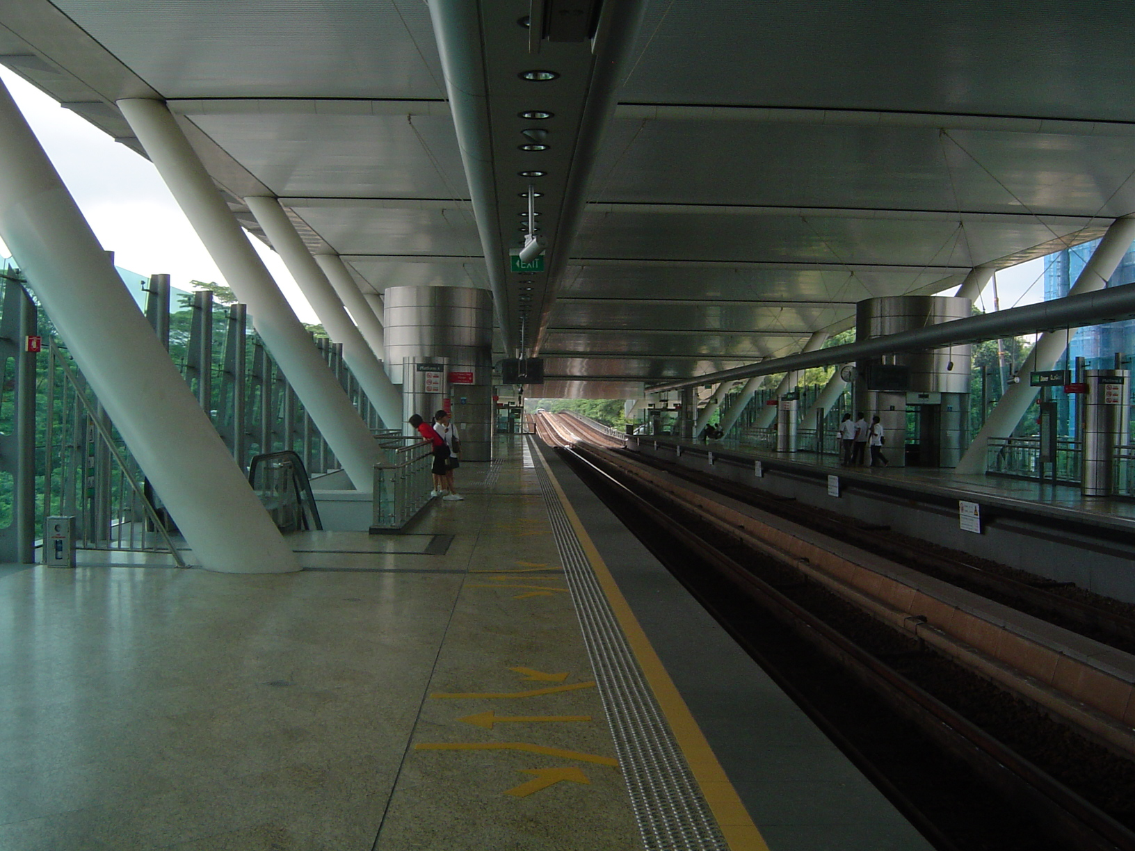 Dover MRT Station (EW22), a Mass Rapid Transit (MRT) station located in Dover in Singapore that is part of the East West Line.